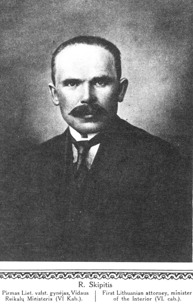 Rapolas Skipitis, Lithuanian lawyer, minister, journalistLietuvių: Rapolas Skipitis, Lietuvos teisininkas, advokatas, redaktorius, politinis veikėjas